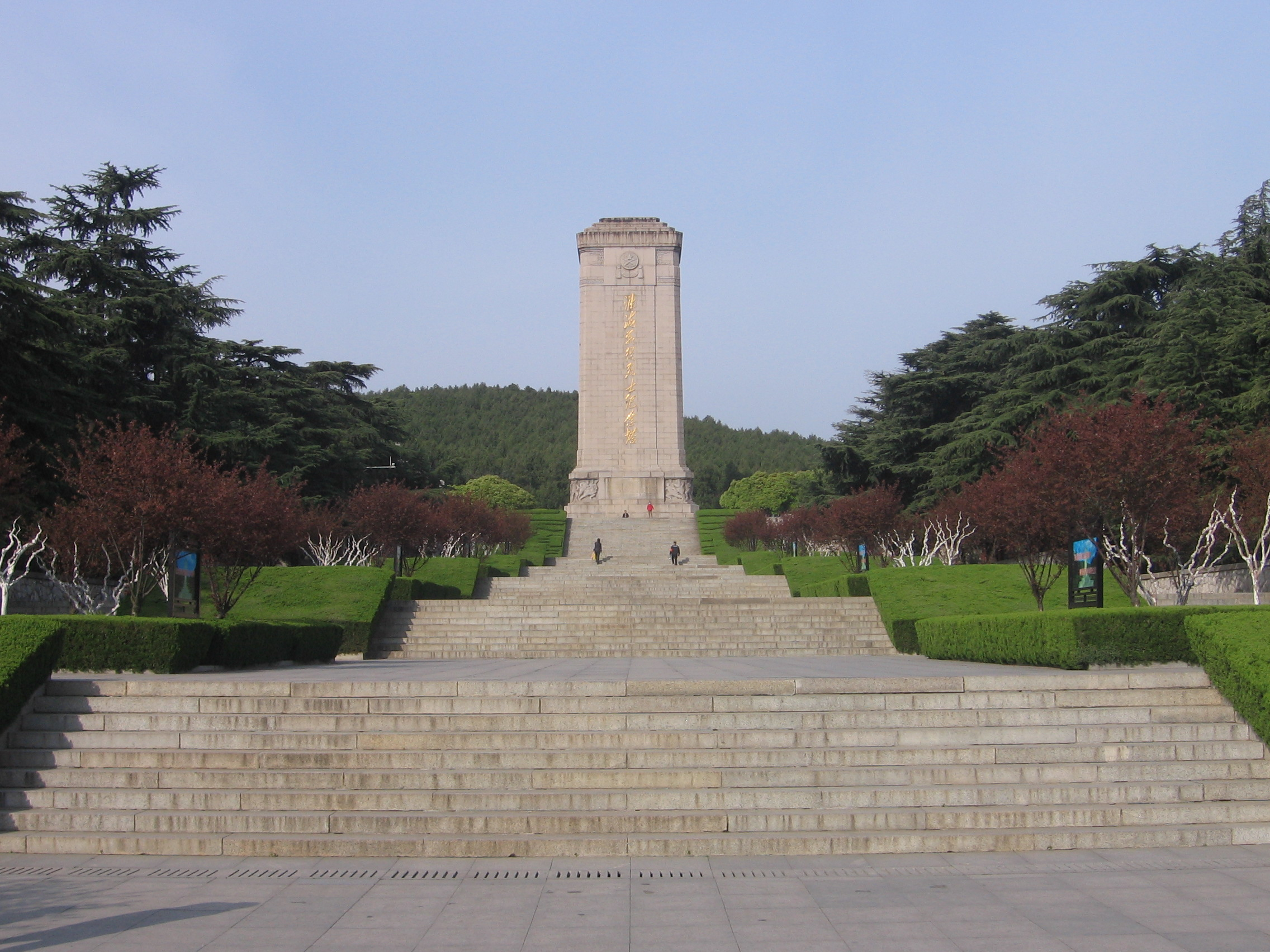 Huaihai Campaign Memorial Tower in Xuzhou, Jiangsu, China.